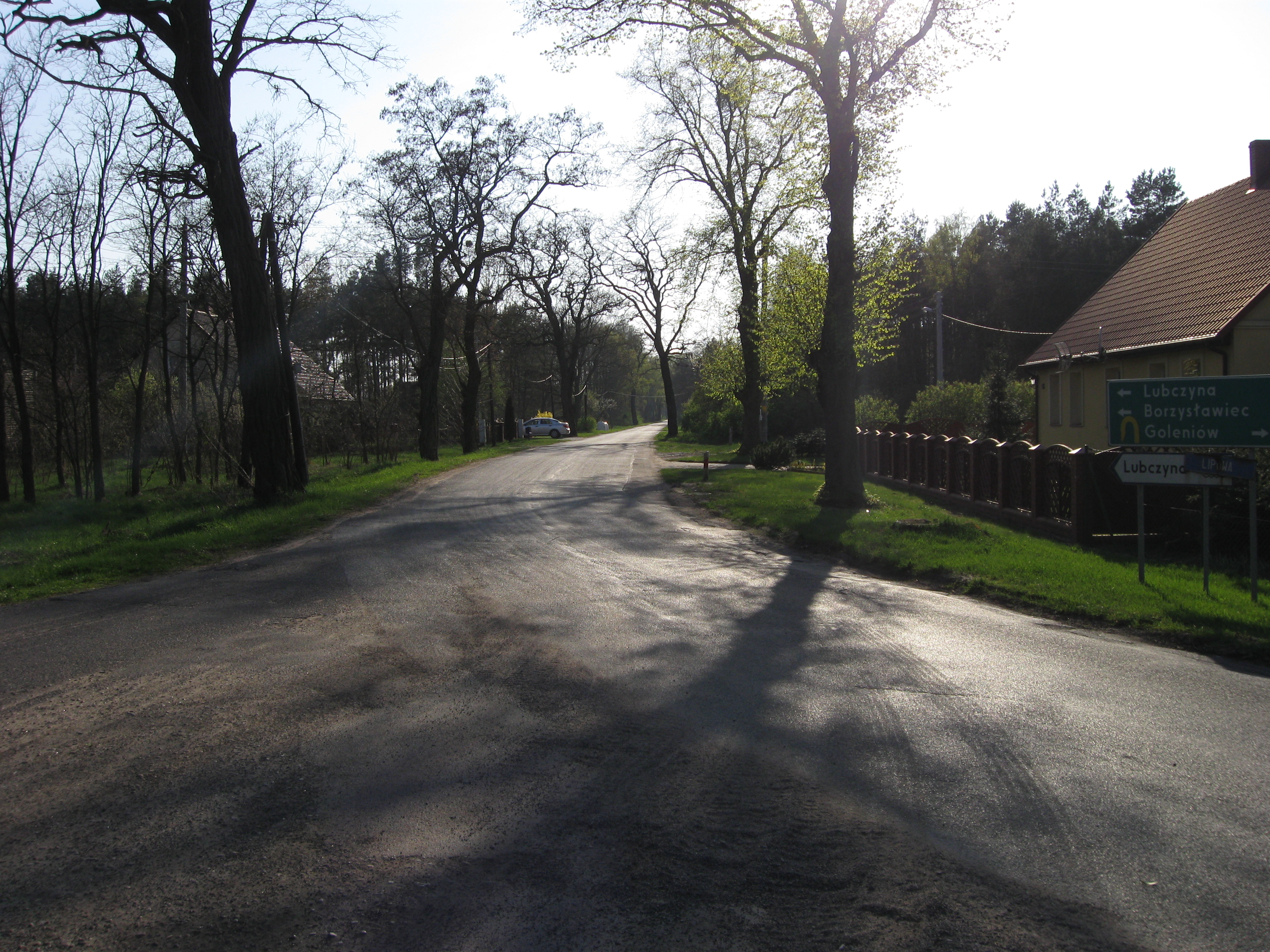 Photo village: Smolno